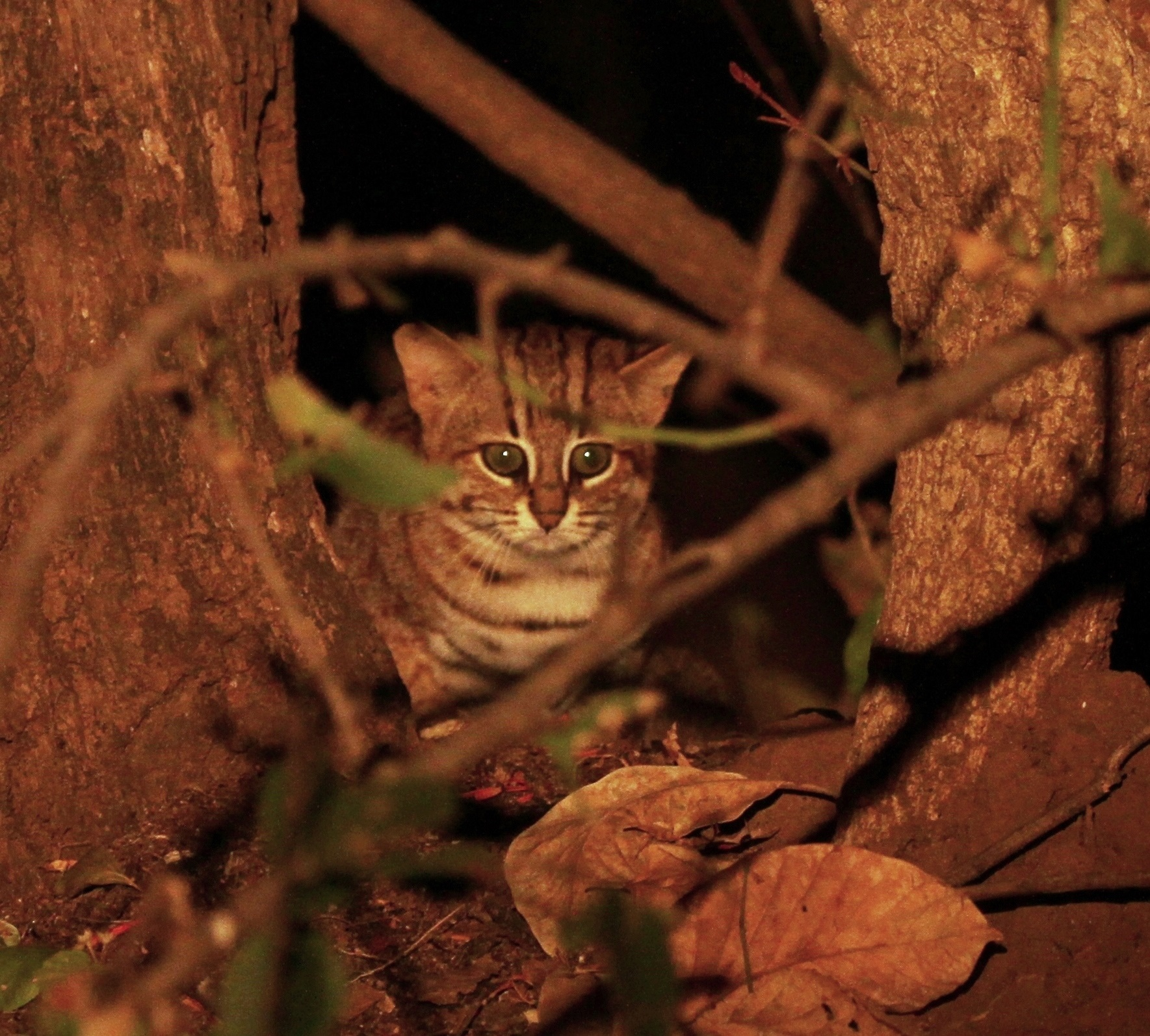 Rusty spotted cat photographed by David V. Raju